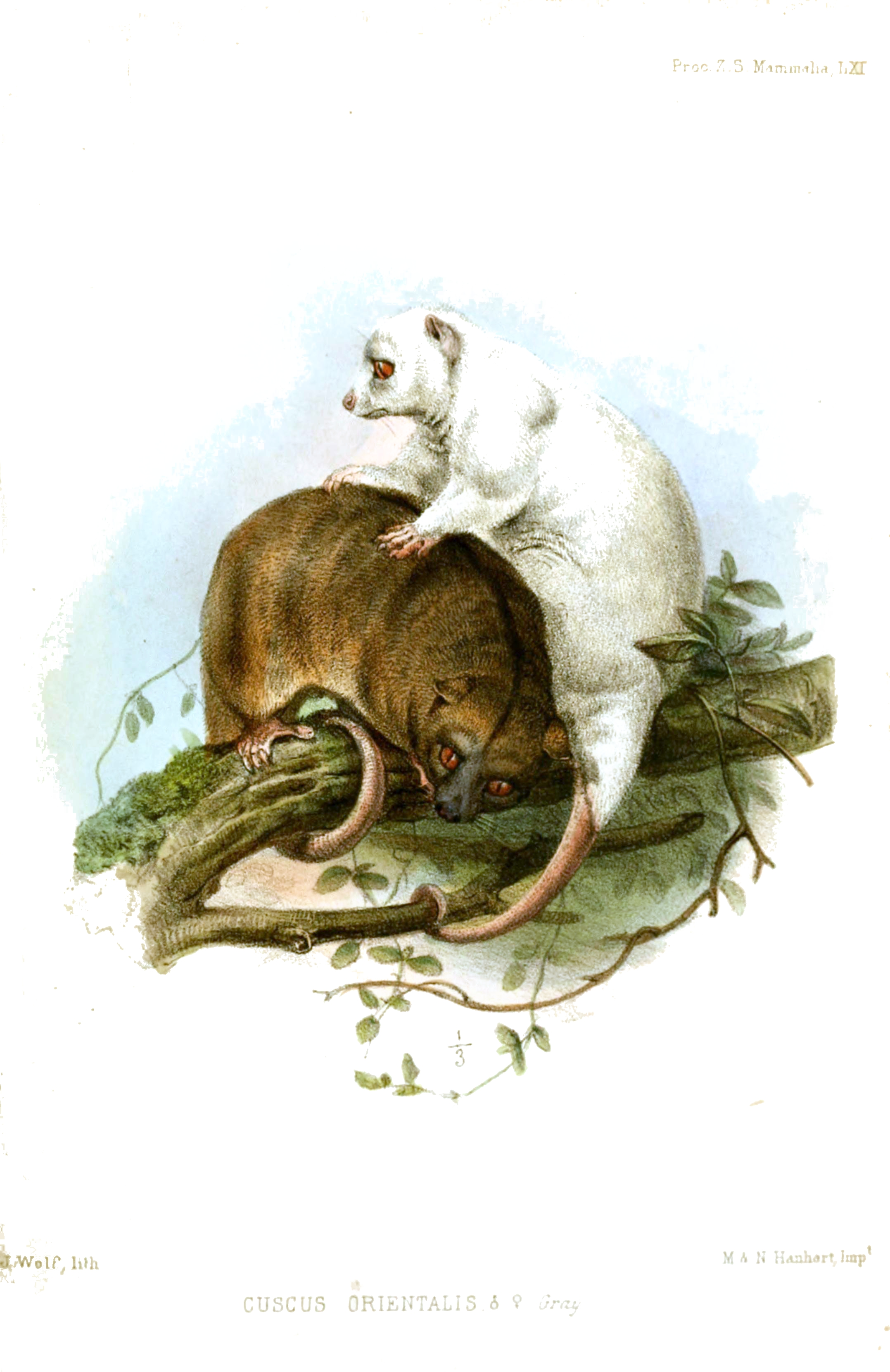 Phalanger orientalis (here described as Cuscus orientalis)